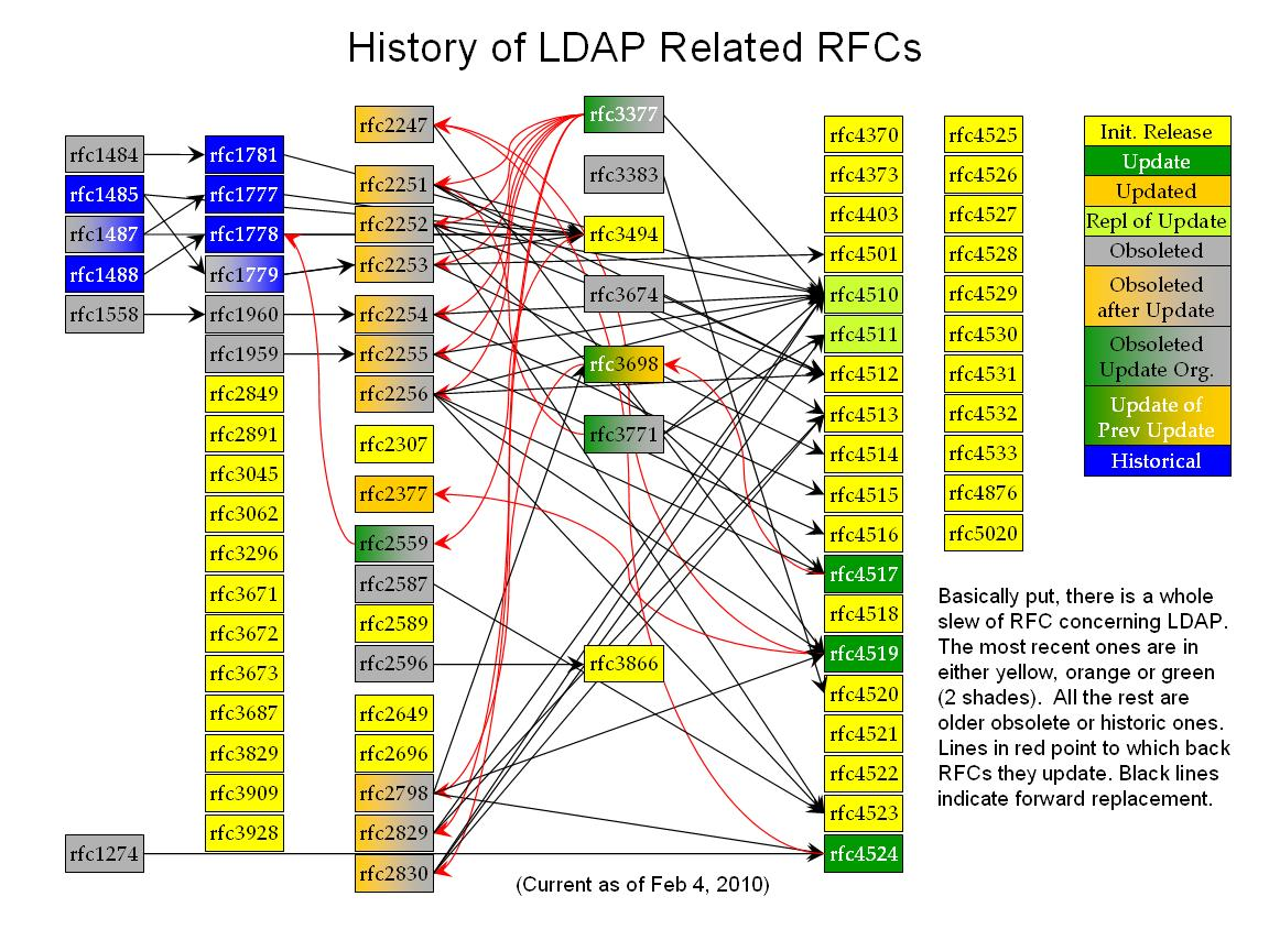 I created this chart to visualize all of the related LDAP RFCs and their statuses!